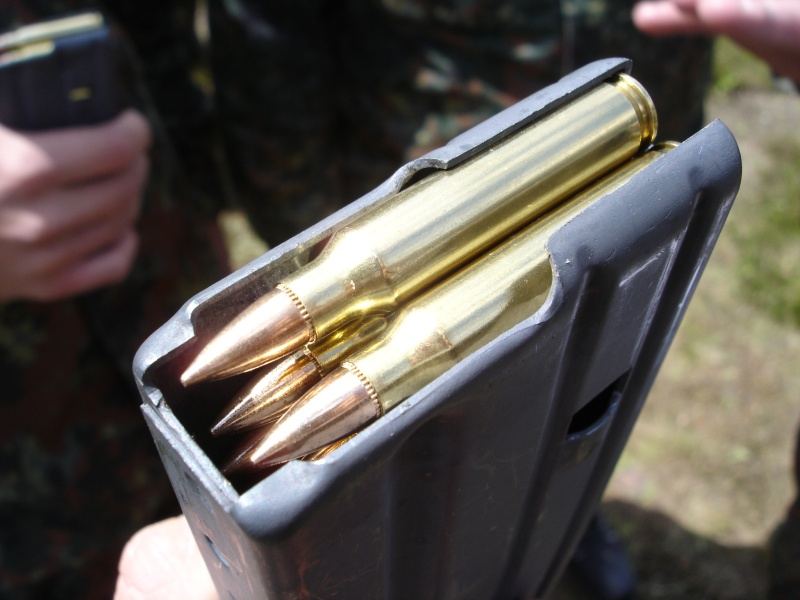 Picture of a 5.56 x 45 mm NATO cartridge in an M16 magazine